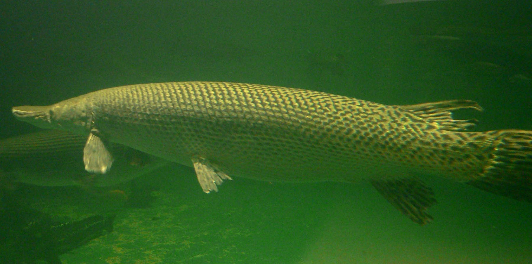 Photo of Atractosteus spatula (alligator gar) at the Steinhart Aquarium in San Francisco